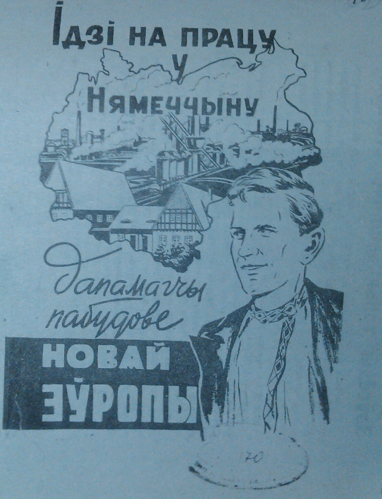 German World War II poster from Belarus